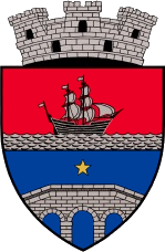 Coat of arms of Corabia, Olt County, Romania.